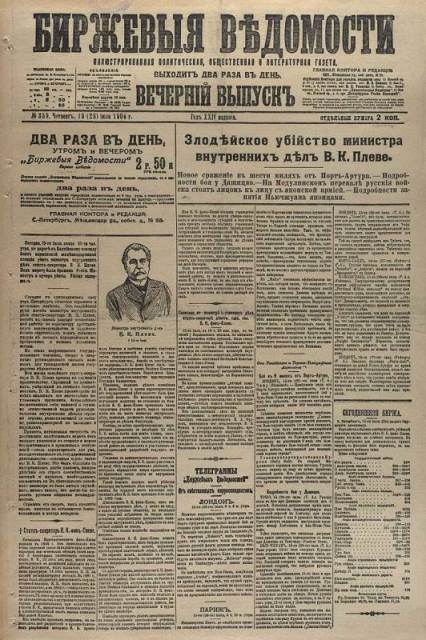 15 July 1904 edition of Birzheviye Vedomosti